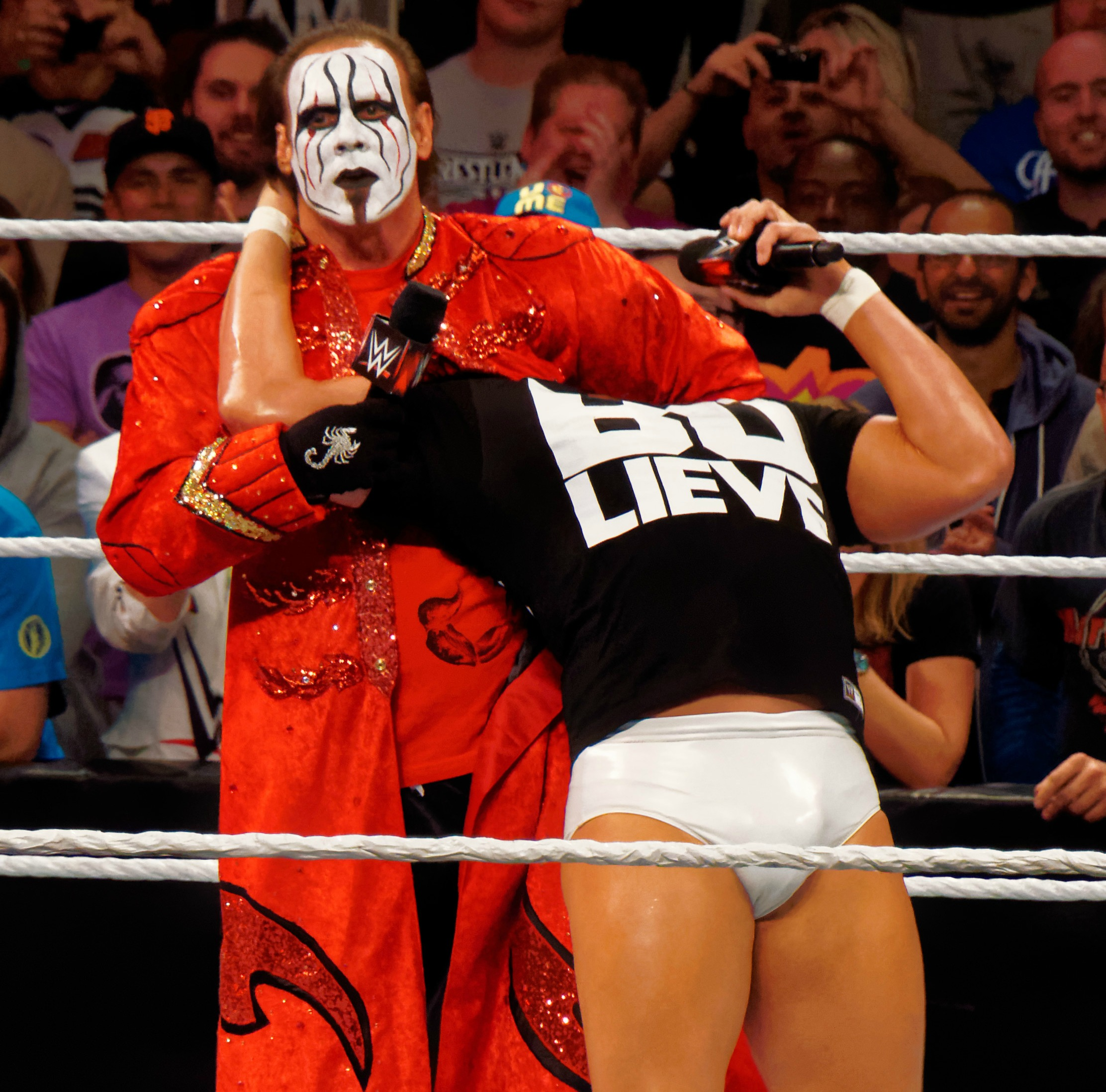 Sting setting up his Scorpion Death Drop finishing move on Bo Dallas at a WWE Raw event on March 30, 2015.